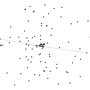 8-point "ley line" alignments of London pizza restaurants